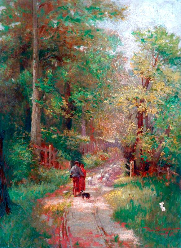 Landscape with Figures on a Path